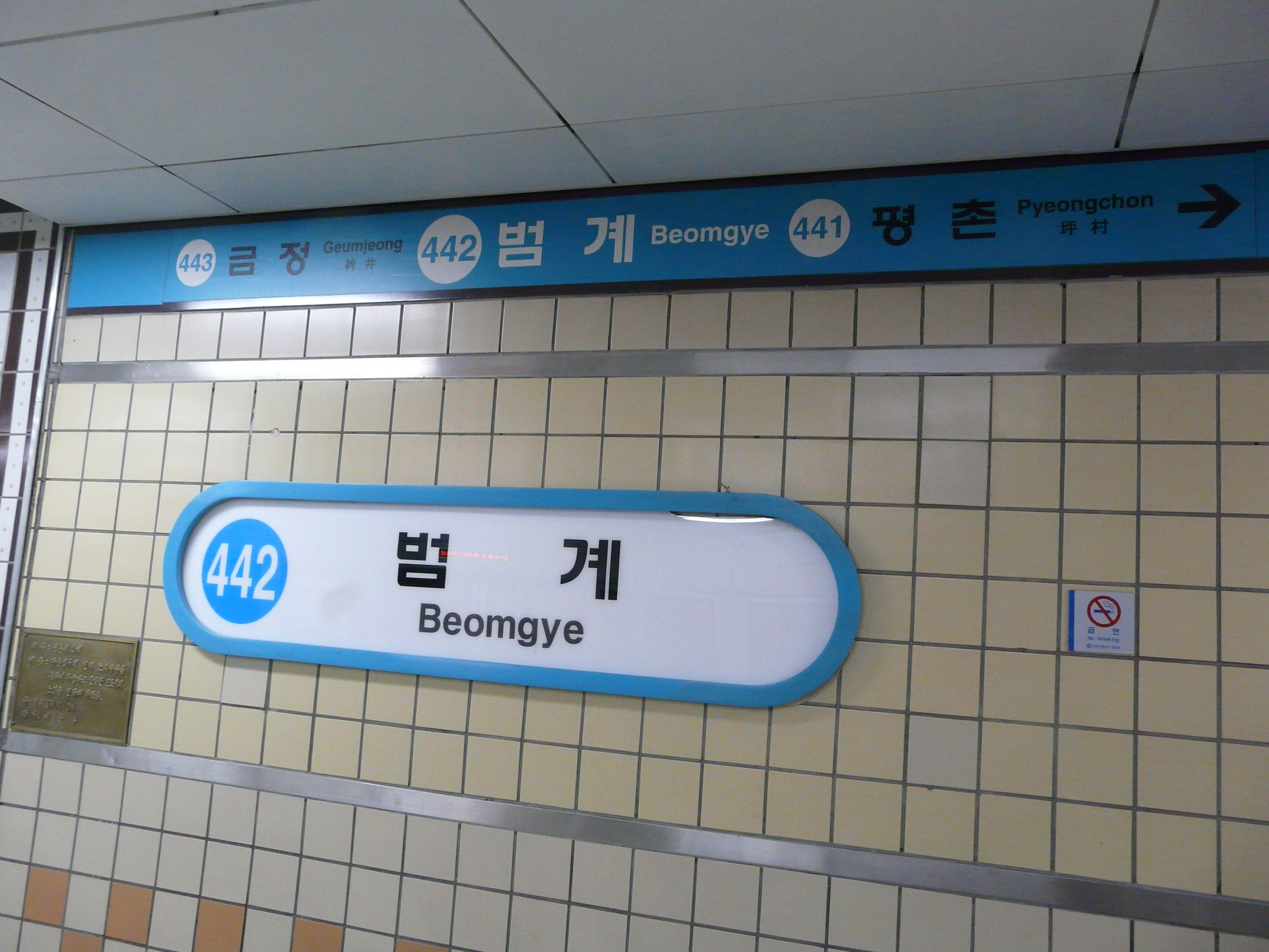 Photos from the city of Anyang, Korea.